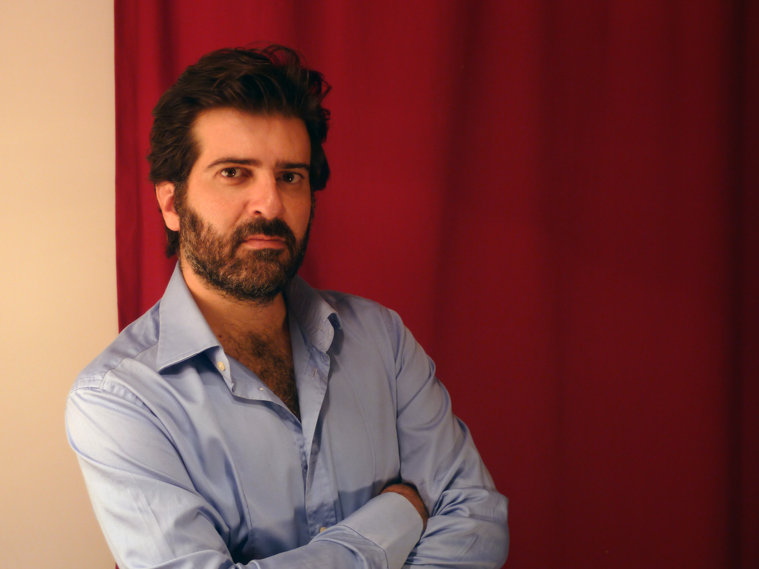 Rafael Spregelburd, argentinian actor and dramaturg.